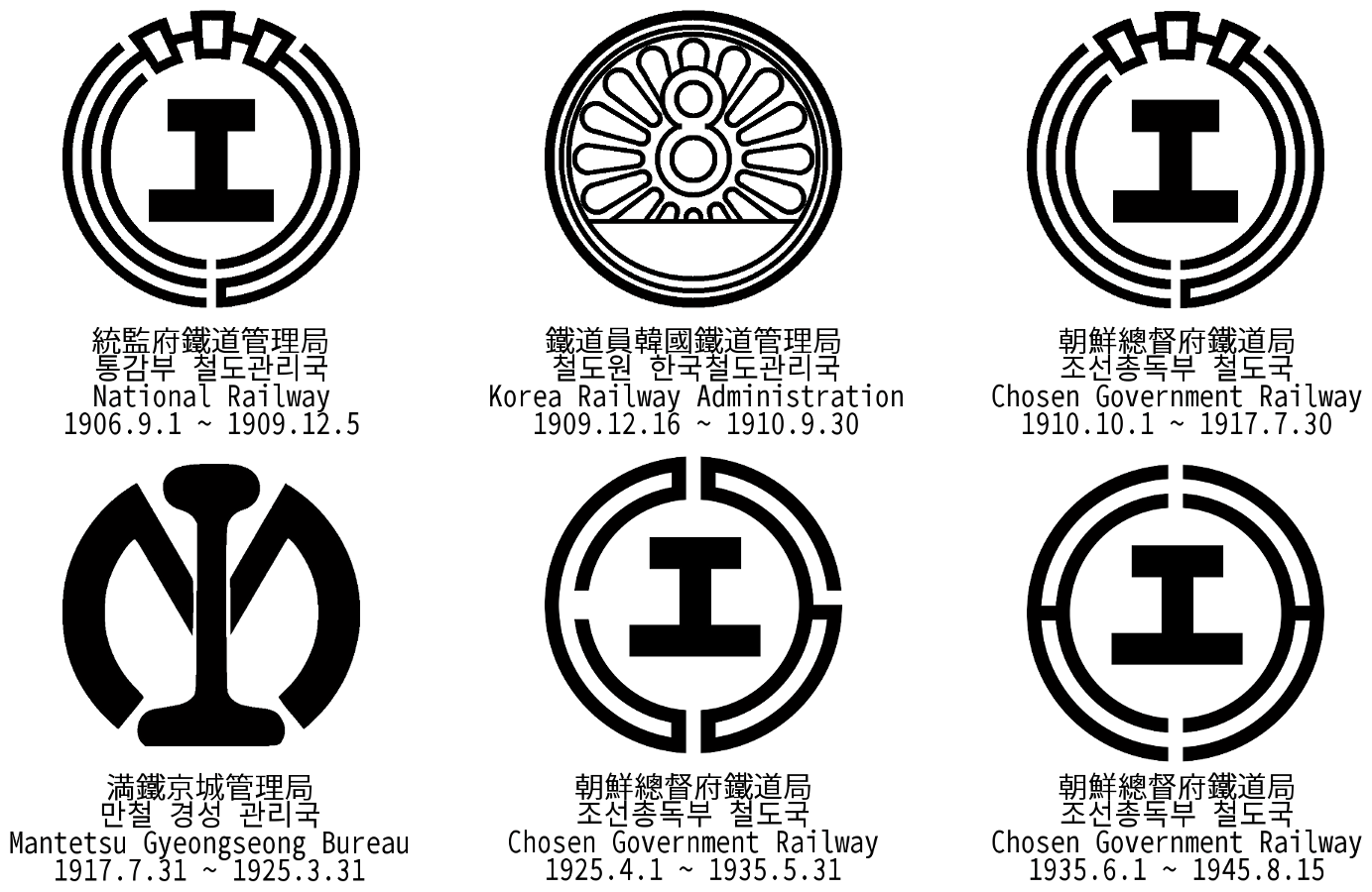 Logos of Korea's national railway companies from 1906 through 1945.